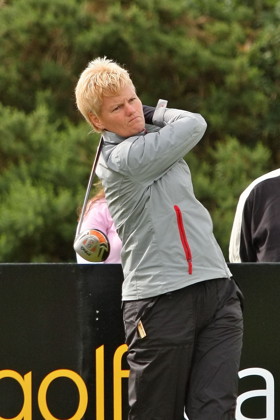 SOUTHPORT, UNITED KINGDOM - JULY 28: Trish Johnson of England tracks her tee shot on the 10th hole during third practice round before 2010 Ricoh Women's British Open held at Royal Birkdale on July 28, 2010 in Southport, England. (Photo by Wojciech Migda)